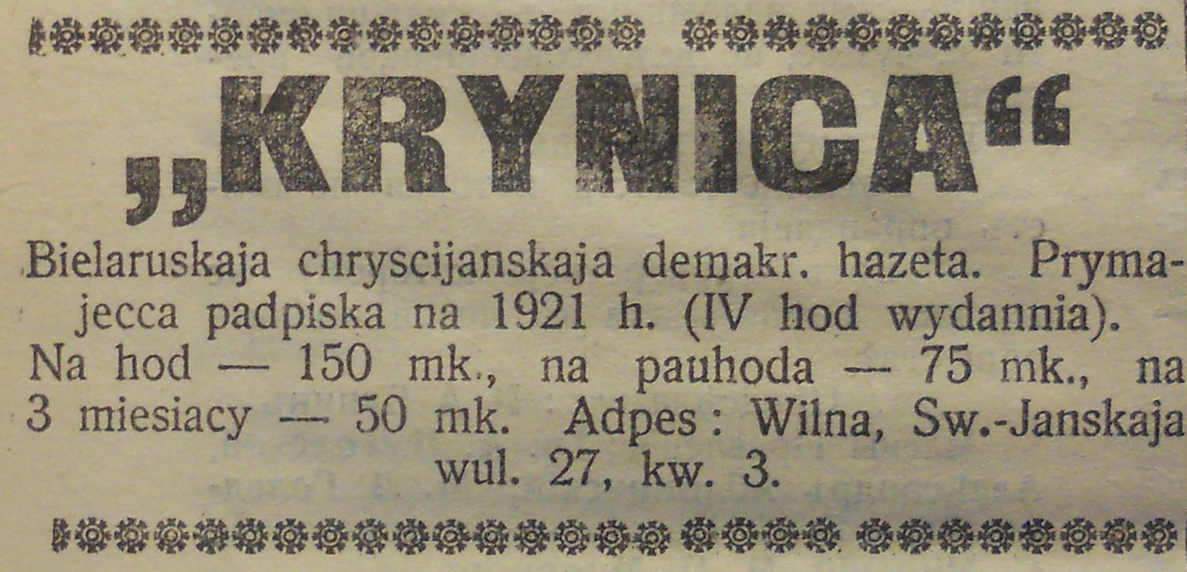 announcement newspaper Krynica in newspaper Narodnoe Delo